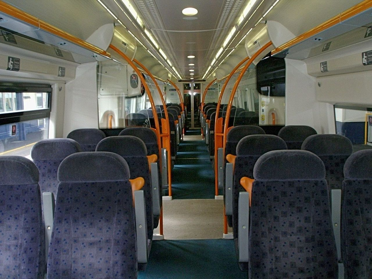 Interior of train running on Hastings- London railway line in England operated by Southeastern, as shown by the seat moquette.